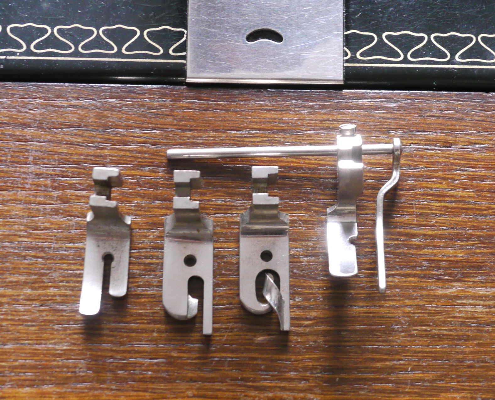 Several different presser feet for an old Pfaff sewing machine.